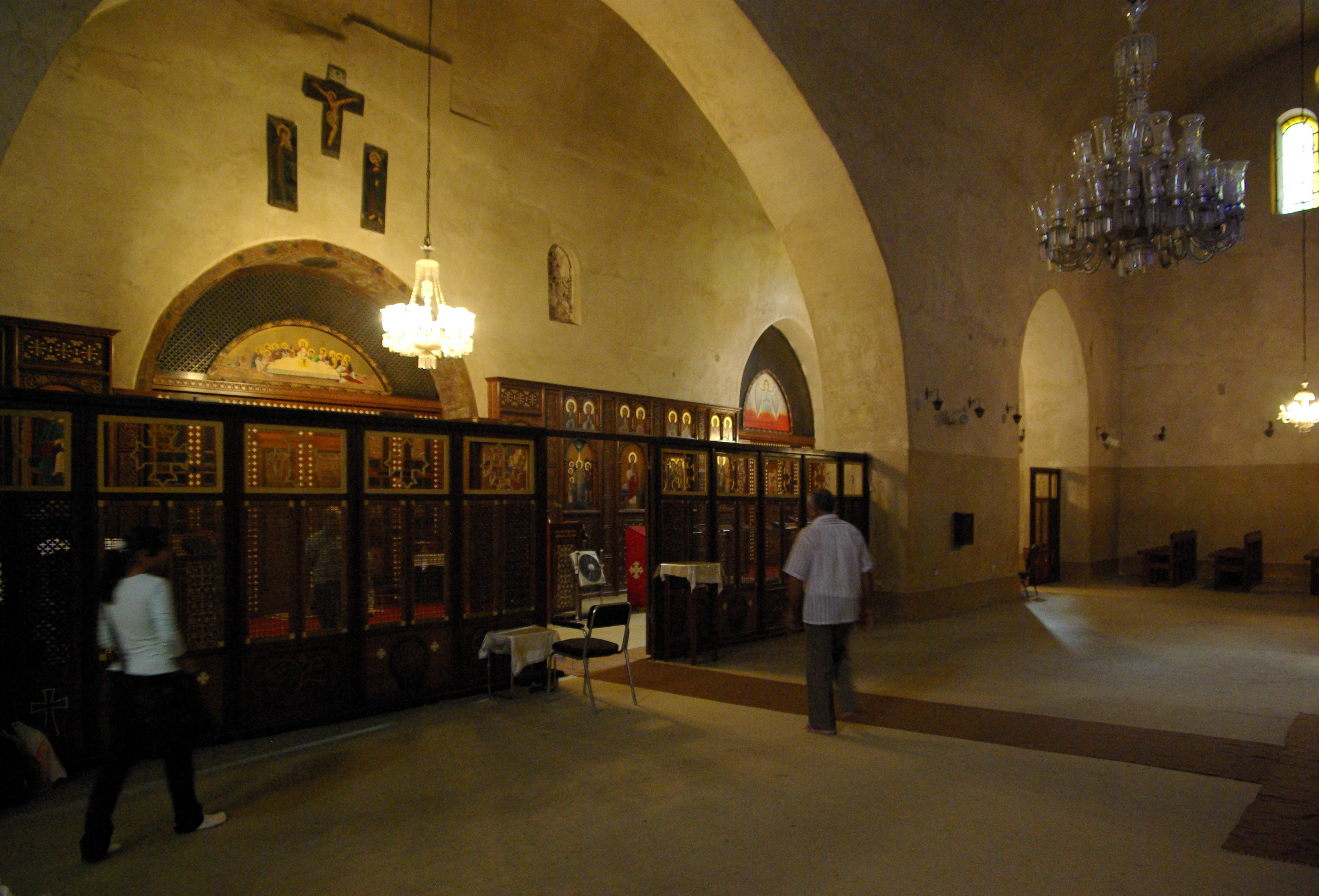 Monastery of Saint Macarius the Great, Wadi Natrun